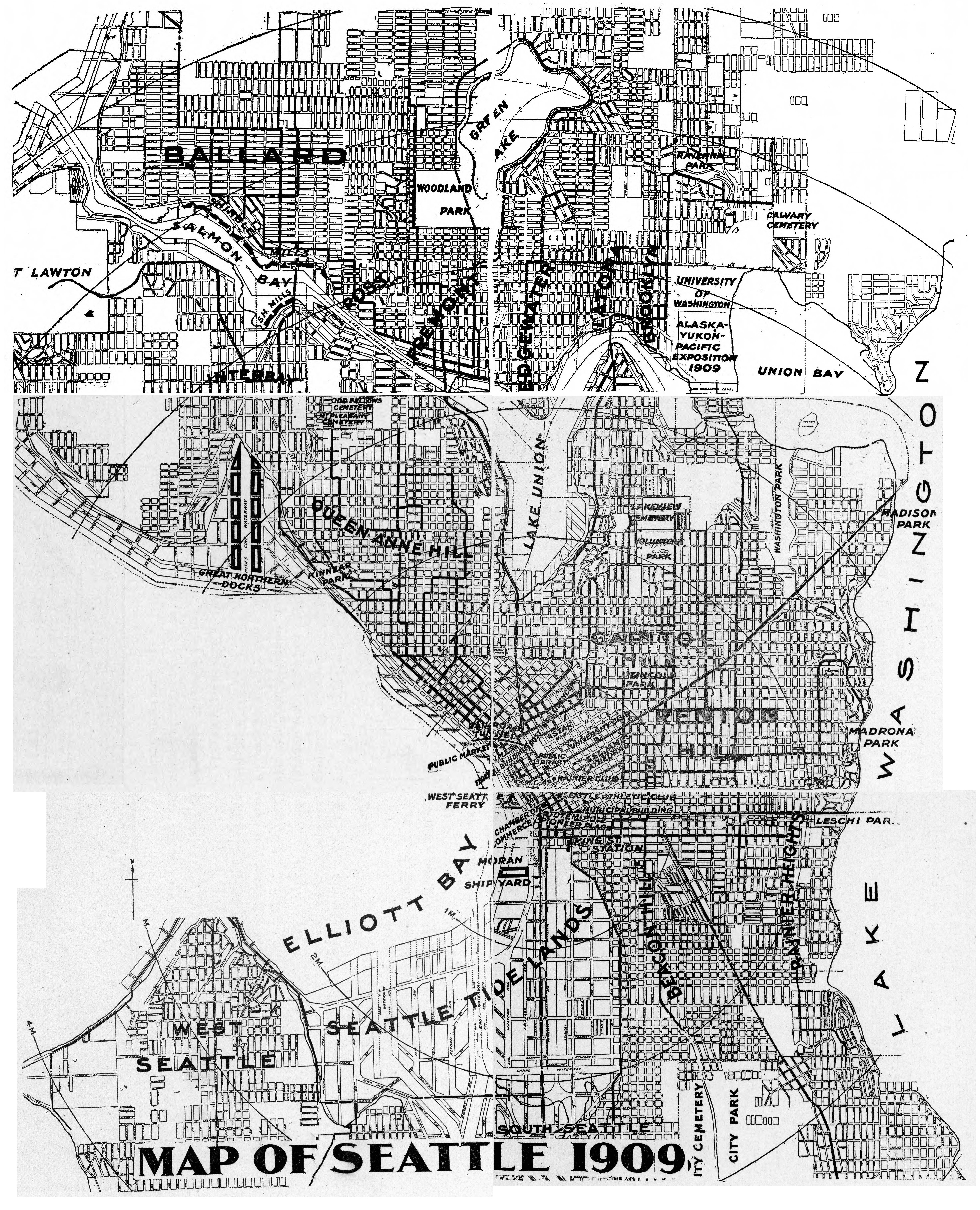 A map of Seattle in 1909, created by combining portions of the following public domain images: File:Souvenir guide of the Alaska-Yukon-Pacific Exposition - held at Seattle, Washington, June 1st to October - Page 9.jpg File:Souvenir guide of the Alaska-Yukon-Pacific Exposition - held at Seattle, Washington, June 1st to October - Page 11.jpg File:Souvenir guide of the Alaska-Yukon-Pacific Exposition - held at Seattle, Washington, June 1st to October - Page 13.jpg File:Souvenir guide of the Alaska-Yukon-Pacific Exposition - held at Seattle, Washington, June 1st to October - Page 15.jpg File:Souvenir guide of the Alaska-Yukon-Pacific Exposition - held at Seattle, Washington, June 1st to October - Page 17.jpg File:Souvenir guide of the Alaska-Yukon-Pacific Exposition - held at Seattle, Washington, June 1st to October - Page 19.jpg This map shows the historic locations of some neighborhoods whose names have fallen out of use in the century since: Ross between Ballard and Fremont Edgewater (roughly today's Wallingford) Brooklyn (today's University District) Renton Hill for part of what would today be considered part of First Hill (or, in its most easterly portion, part of the Central District) It also shows: A much longer Smith Cove (much of which was later filled), with the Great Northern Docks Lincoln Park for today's Cal Anderson Park The Moran Shipyard anchoring the south end of the Central Waterfront (now a container port) A somewhat loose map for Harbor Island (still under construction at the time) The size of the various lakes and freshwater bays before the Hiram M. Chittenden Locks lowered the water level The canal extending from the East Waterway near Spokane Street. The arrangement of streets between Lake Union and Capitol Hill before Interstate 5 came through.